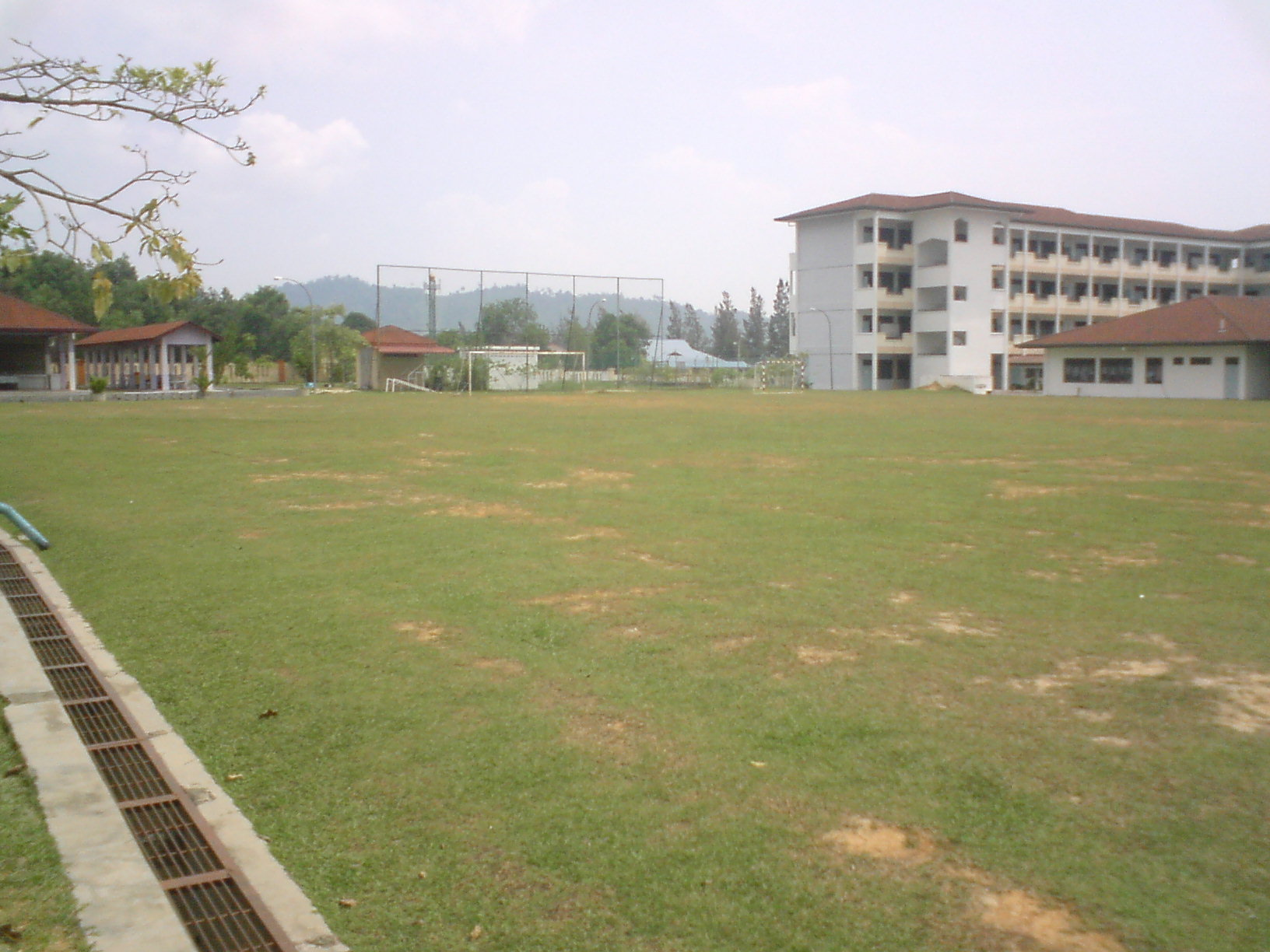 SMK Bakar Arang Field in 2008. The right side of the building is SK Bakar Arang. The right side is the canteen of SMK Bakar Arang.